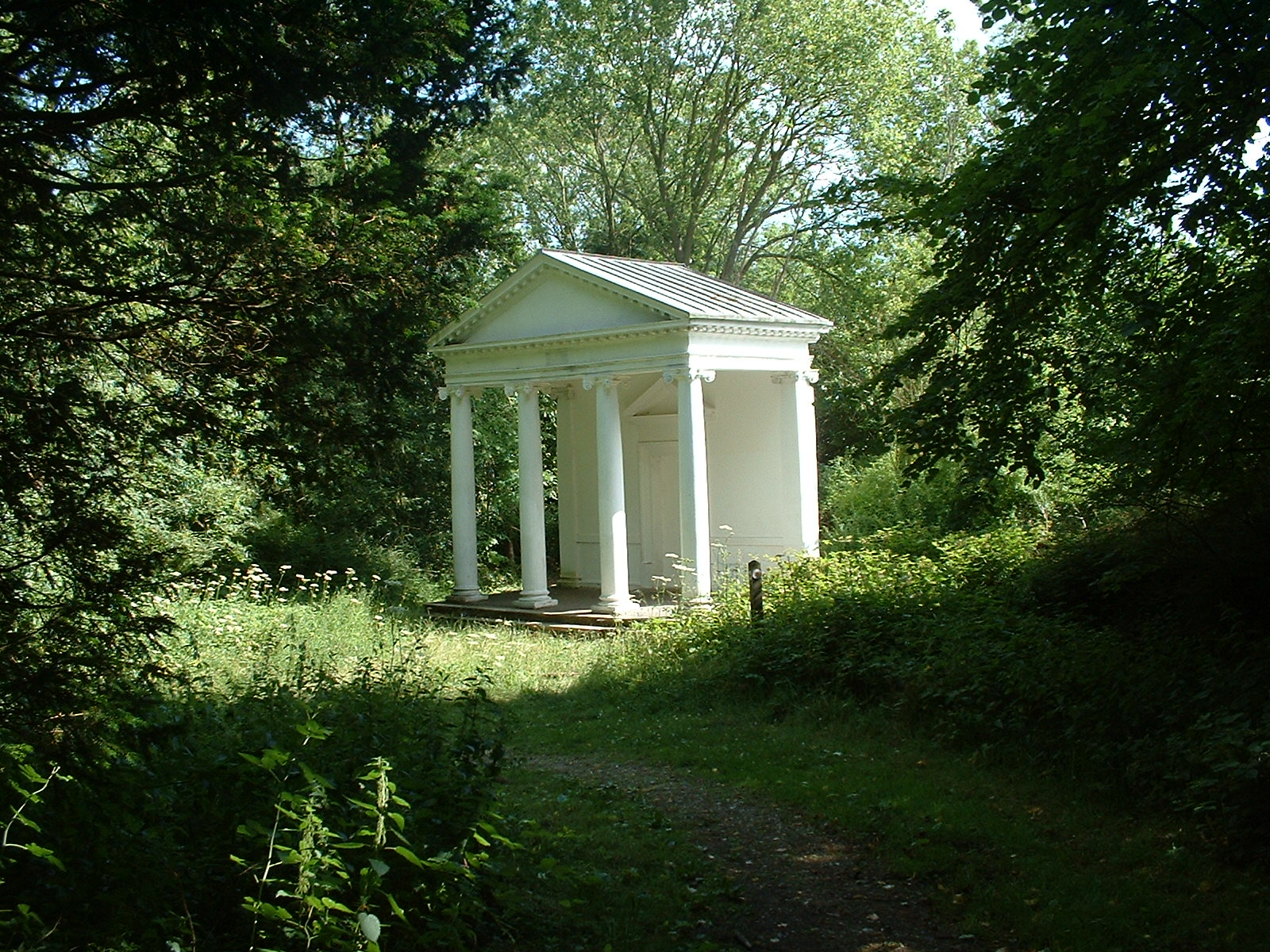 Tring Park, Hertfordshire, the summer house